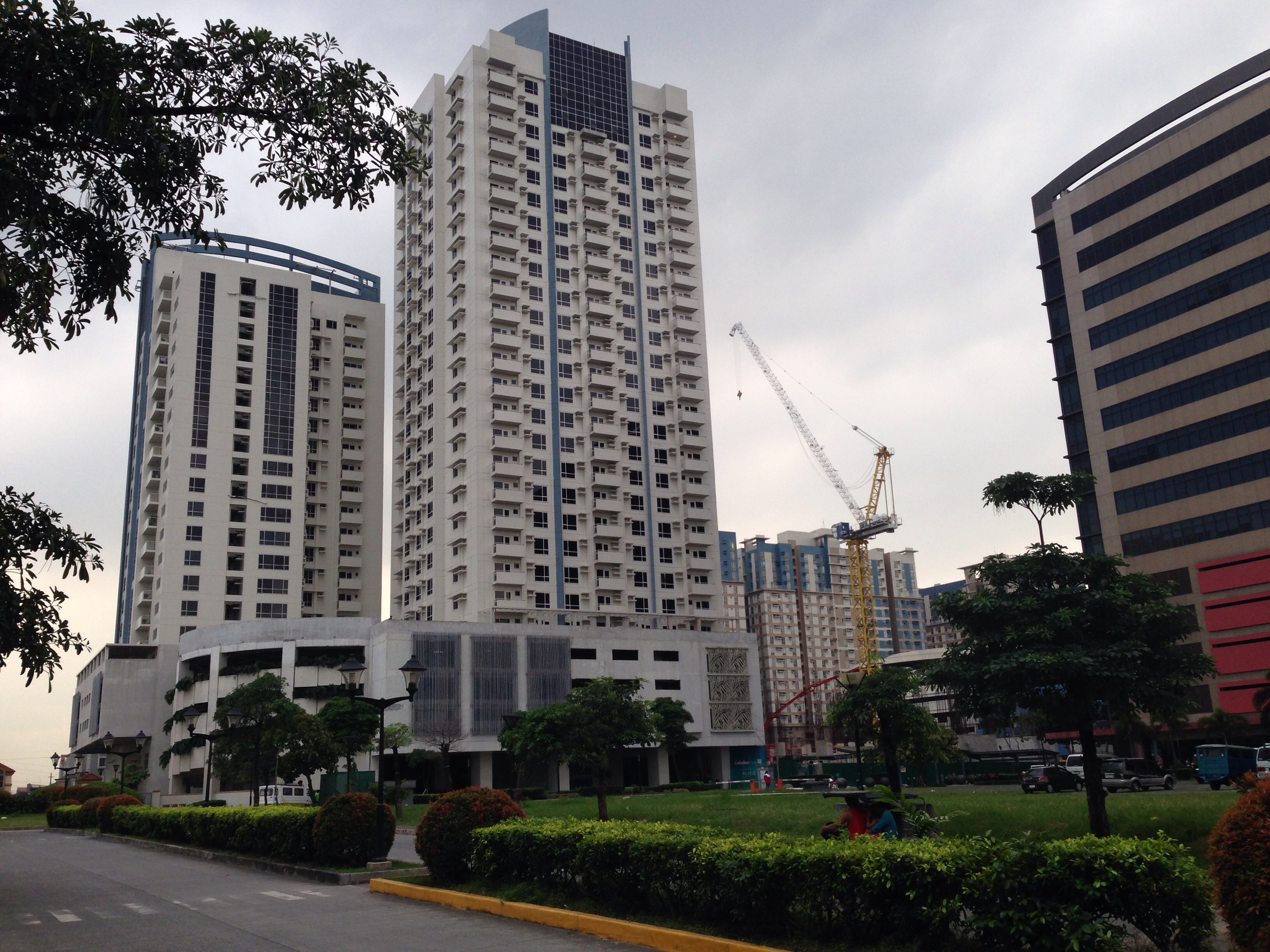 San Lazaro skyline (Vertex, Celadon, Convergys) San Lazaro Tourism and Business Park Santa Cruz, Manila, Philippines